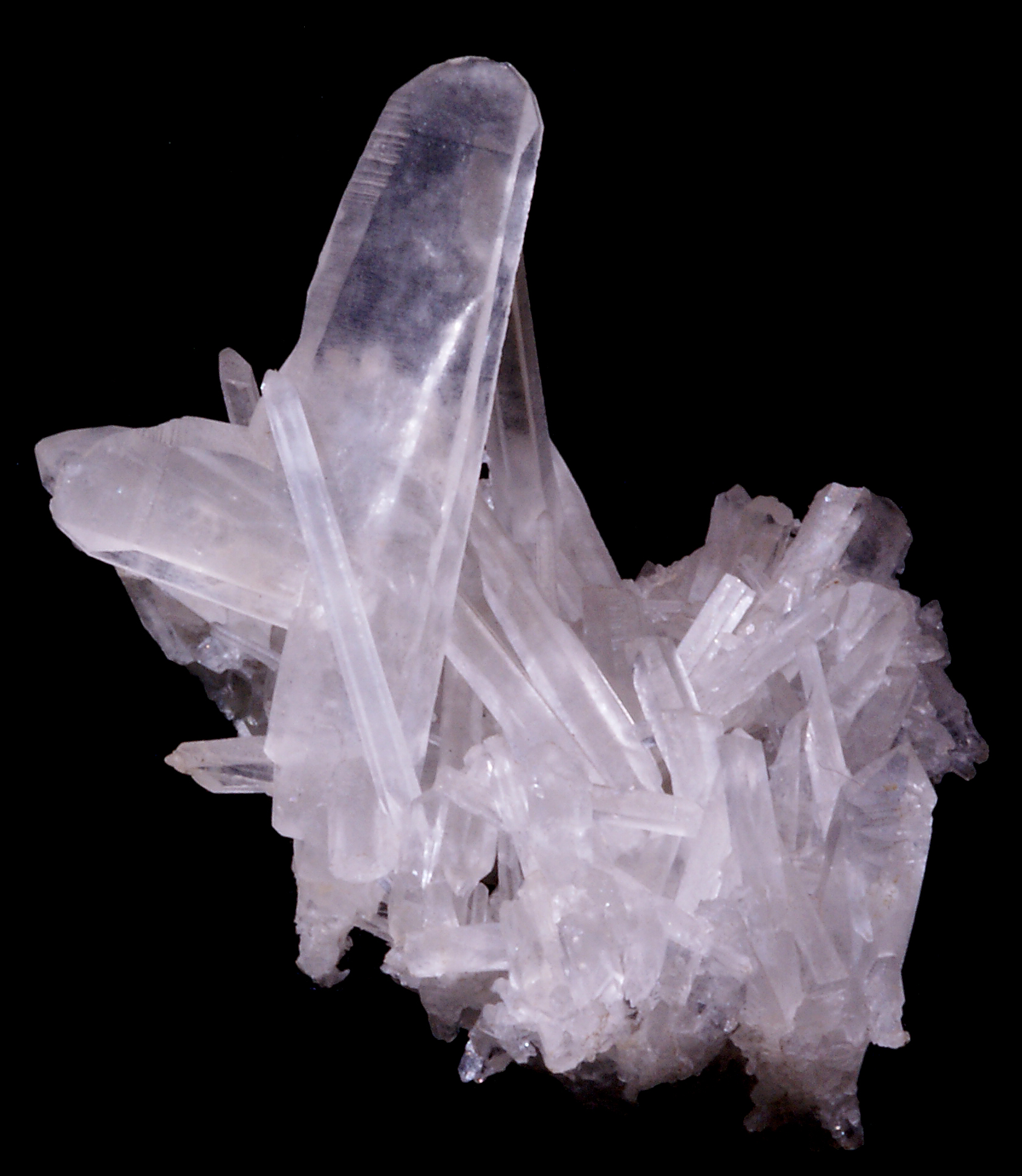 Quartz - La Gardette Twin - Vizille Isère France (5,2x5cm)